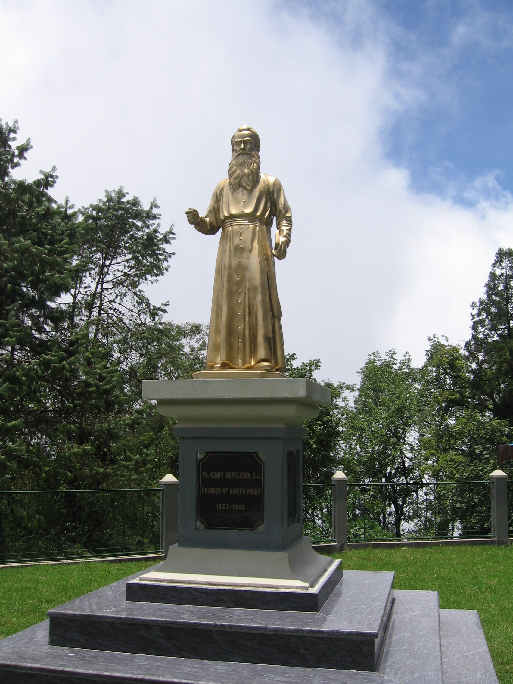 The statue of Belgian Jesuit Henri Depelchin, founder of the St Joseph's School, Darjeeling (in Darjeeling)